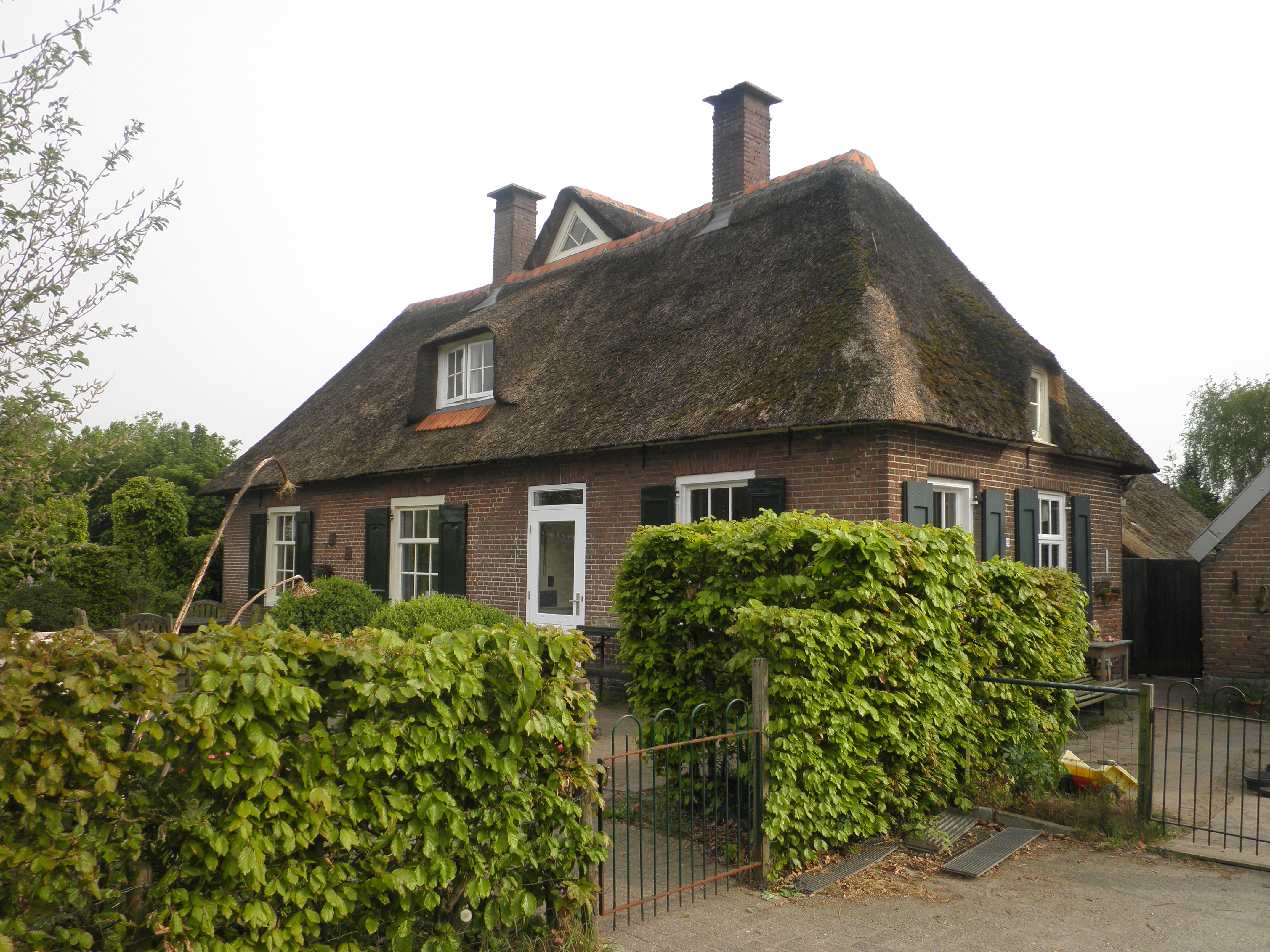 De Riete farm, with transverse house constructed of red factory brick under hipped thatched roof, the attached working area under thatched half-hipped roof with open gable top. Nationally listed heritage.